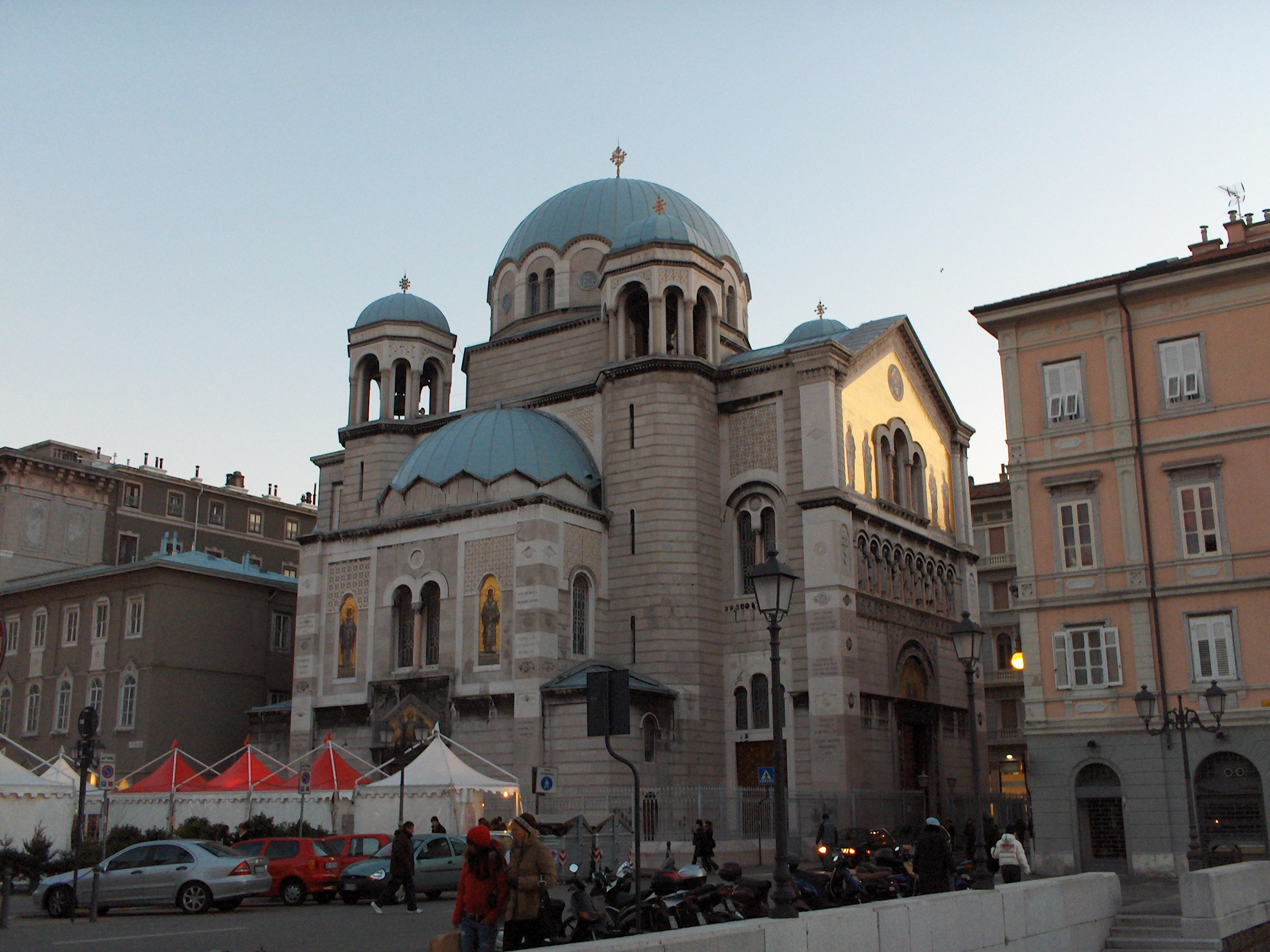 Serbian-orthodox church of San Spiridione, Trieste, Italy.